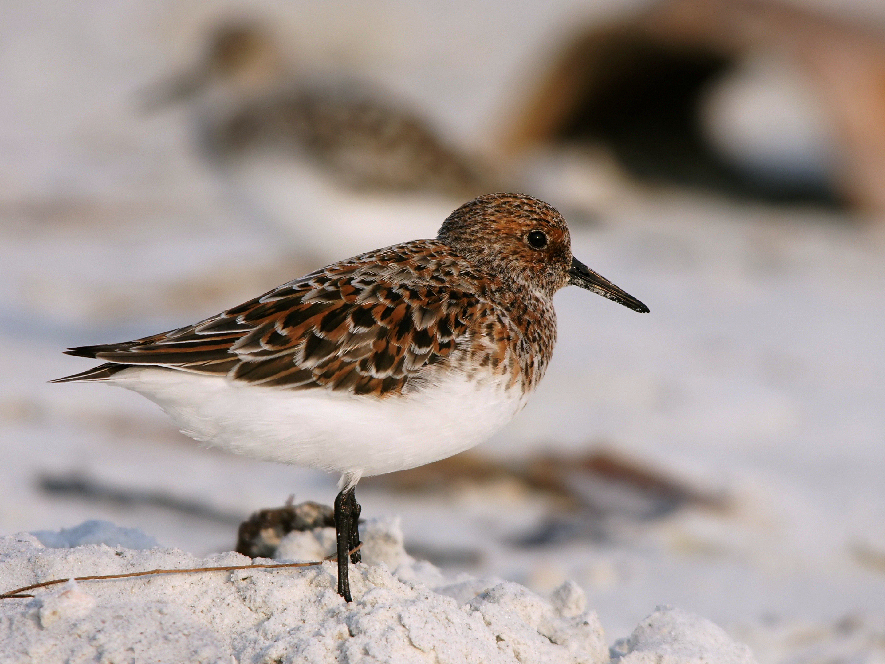 Sanderling in breeding plumage at Sanibel Island in Lee County, Florida, U.S.A.